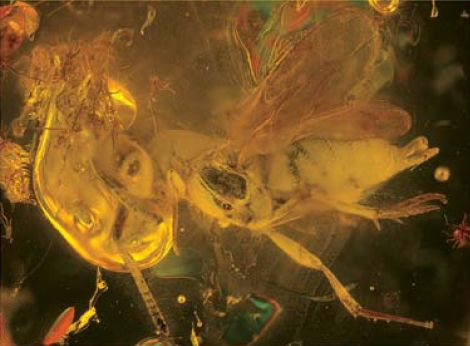 Holotype female of Neanaperiallus masneri, lateral habitus.